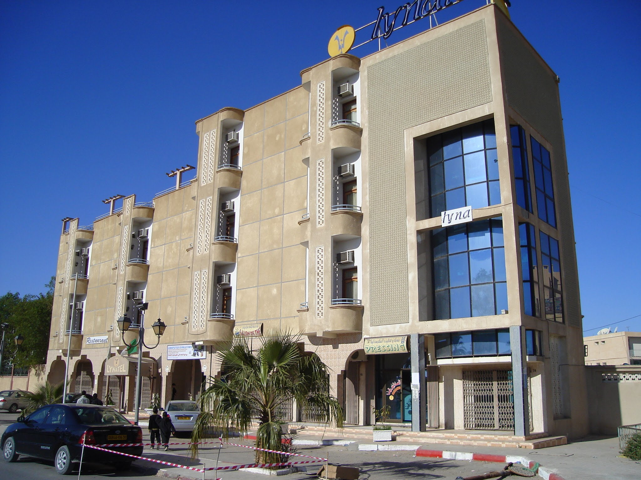 Ouargla